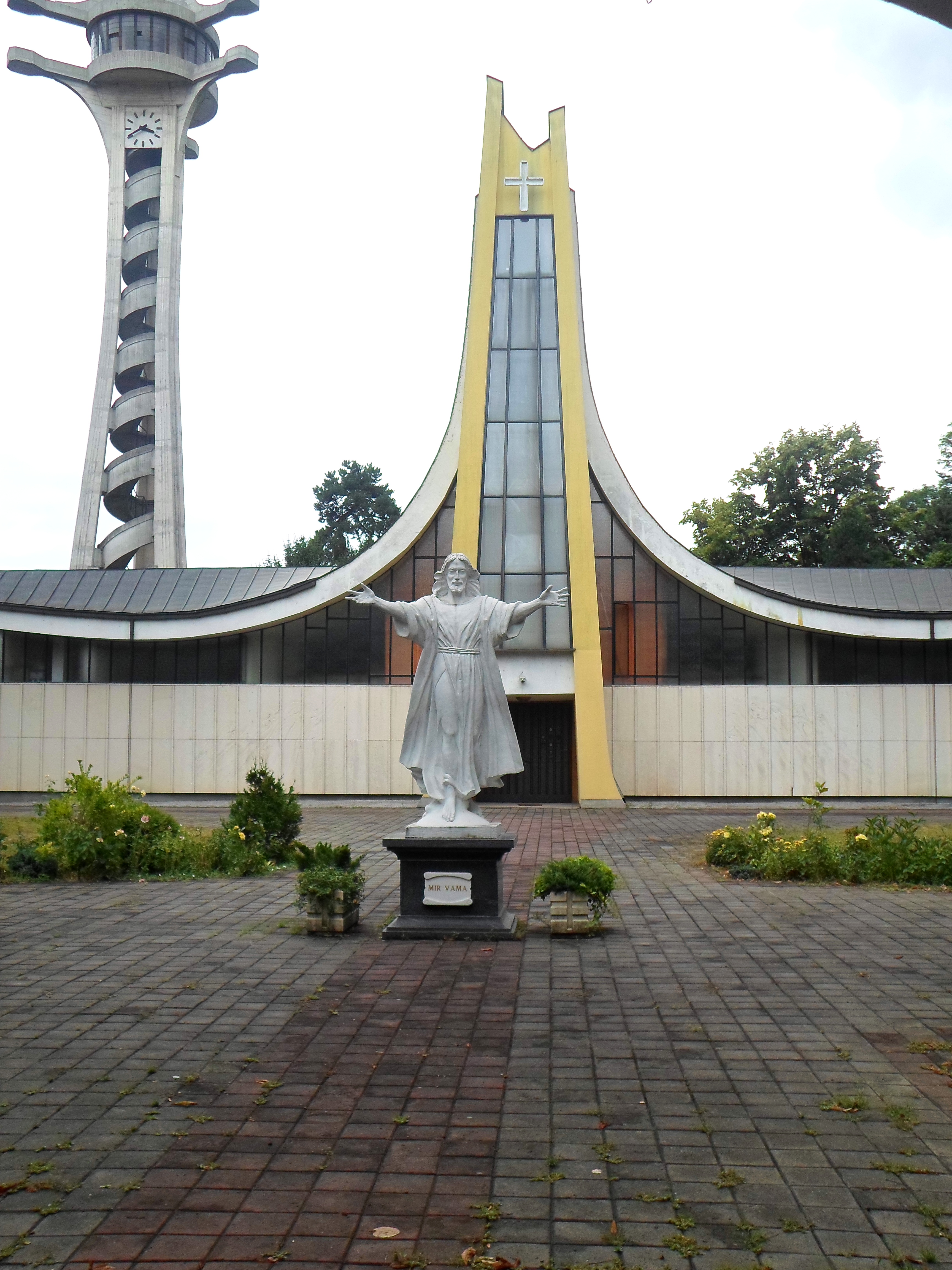 Католичка црква похода Блажене Дјевице Марије Светој Елизабети, Бањалука This image was uploaded as part of Trace of Soul 2015.